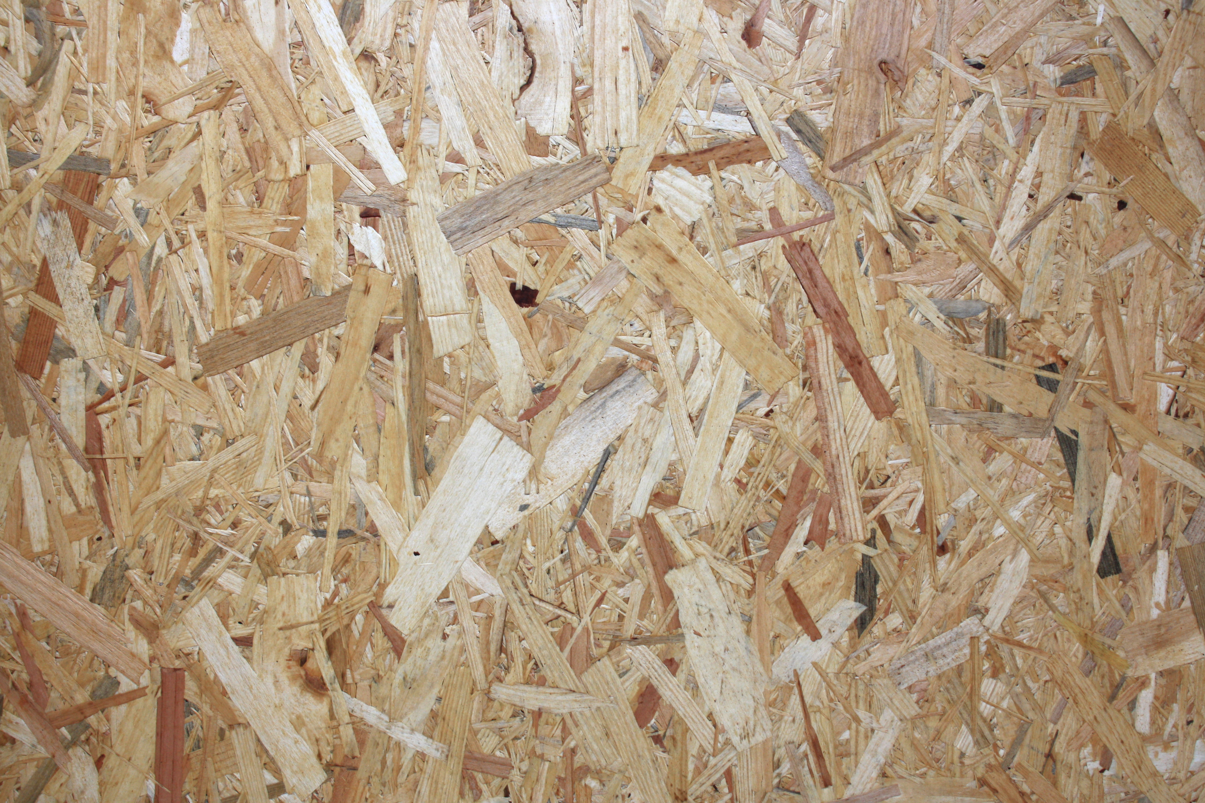 Close-up of wooden box made from oriented strand board. Located in the Parc d'activités de Courtabœuf, an industrial park located at 22 kilometres in the south-west of Paris, in the department of Essonne, France.